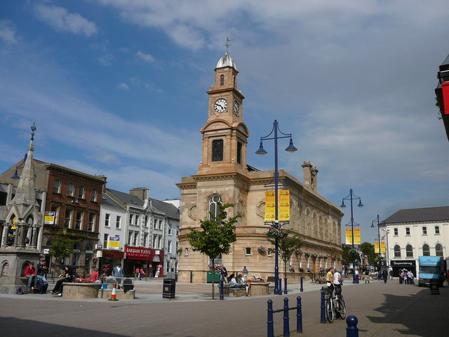 Town Hall, Coleraine